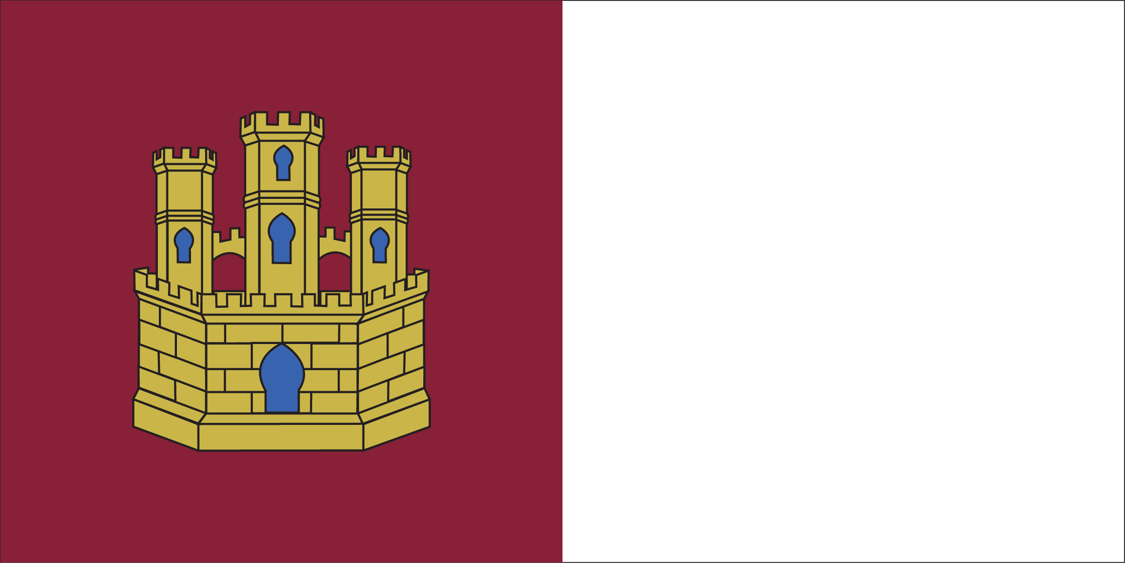 Flag of Castile-La Mancha (theoretical model)